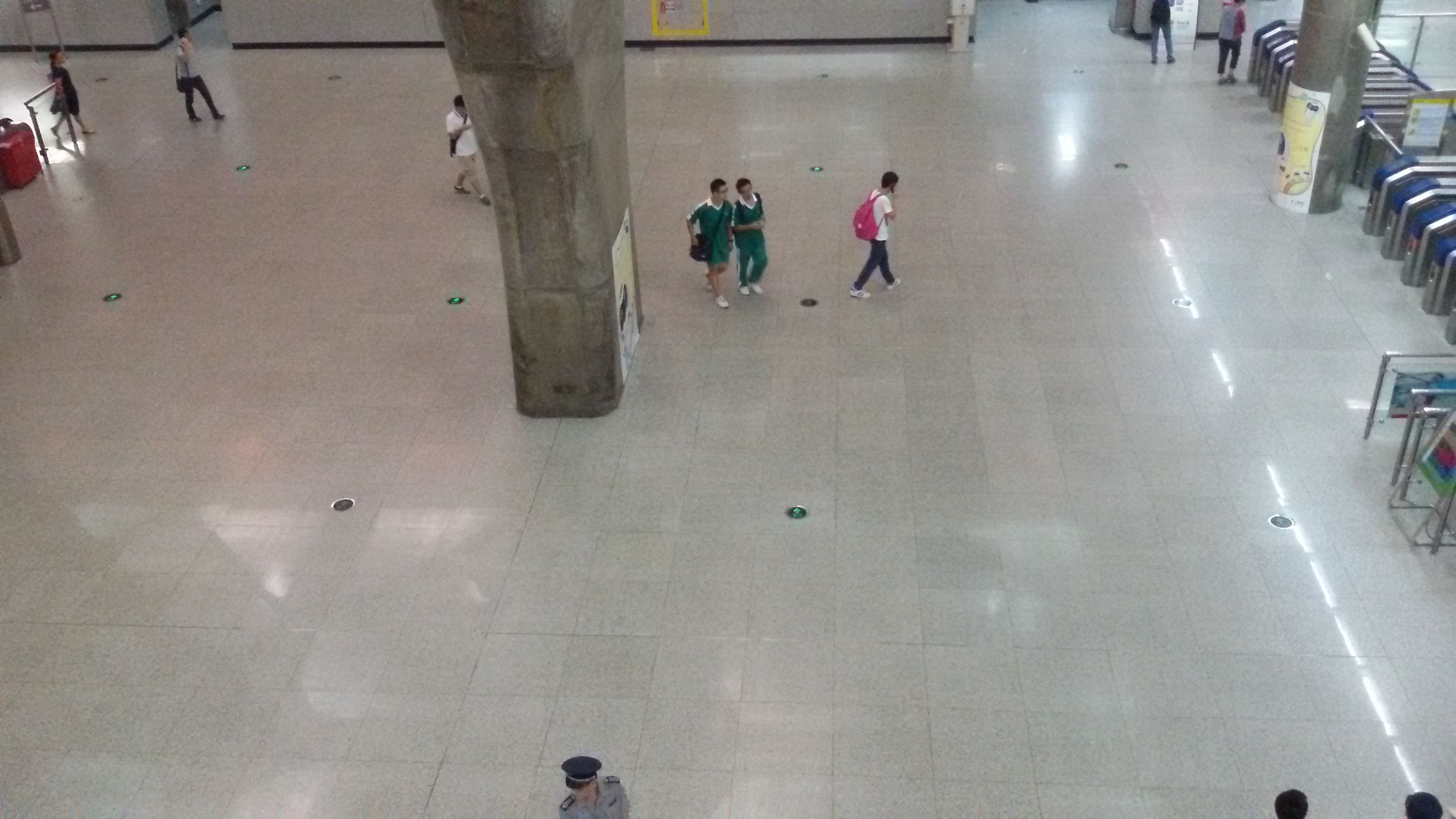 Station Concourse for Zoo Station in Guangzhou Metro (Watch it from above)